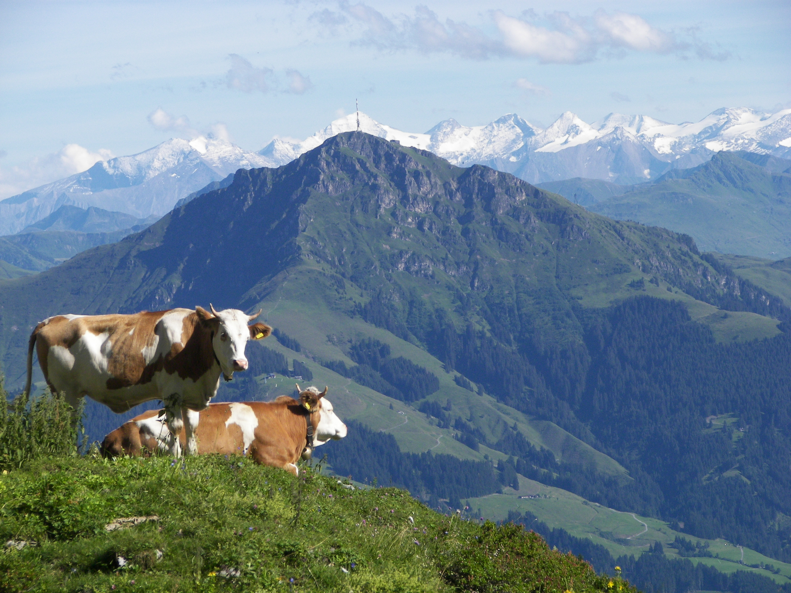 Kitzbüheler Horn seen from NW (Hochgrubachkar), background: Großes Wiesbachhorn (Glocknergruppe)